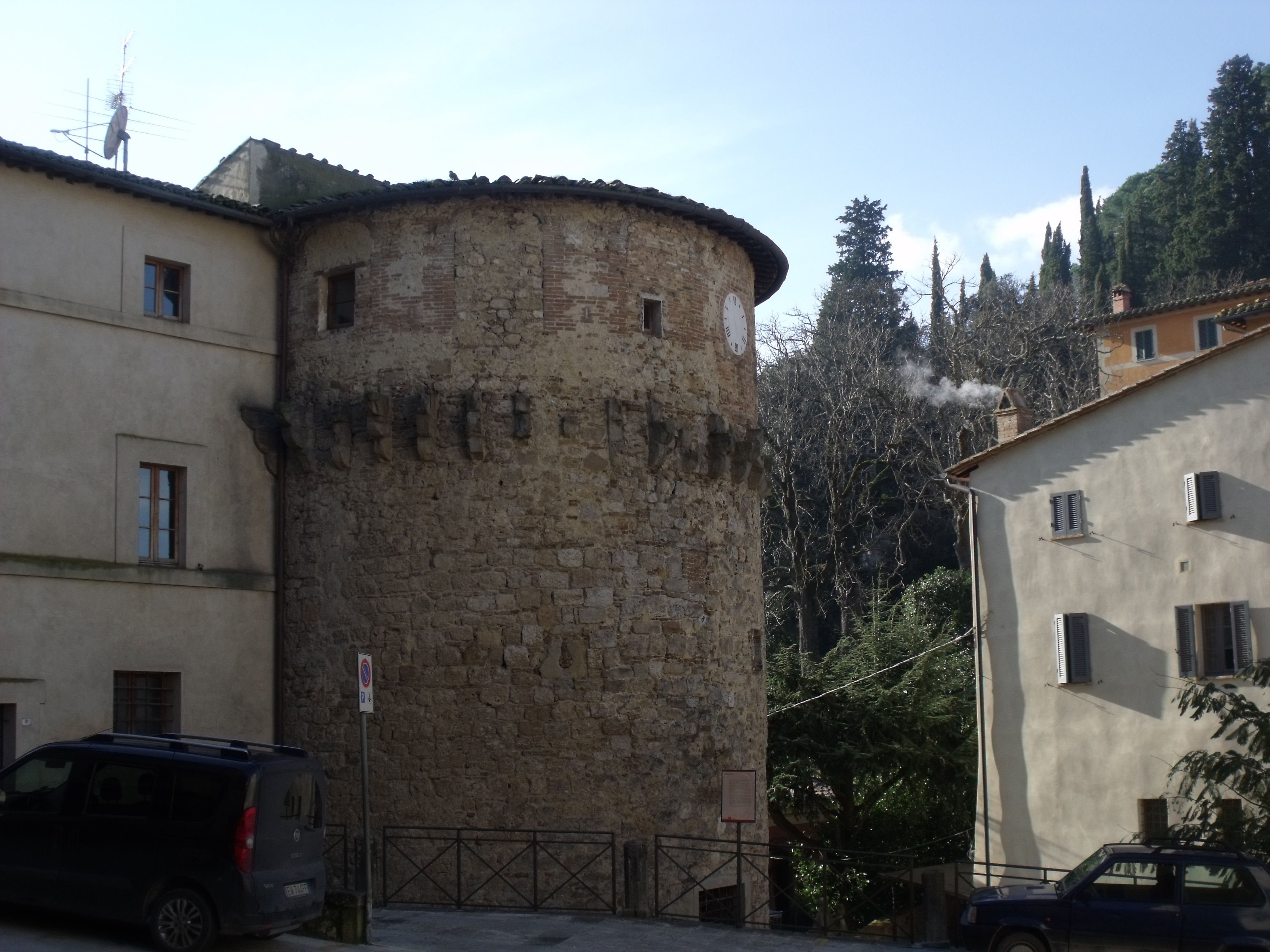 Rivellino Tower in Cetona, Province of Siena, Tuscany, Italy